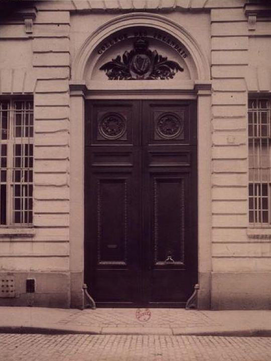 The entrance of the Collège des Irlandais, 5 rue des Irlandais in Paris. Photo by Eugène Atget, 1905.